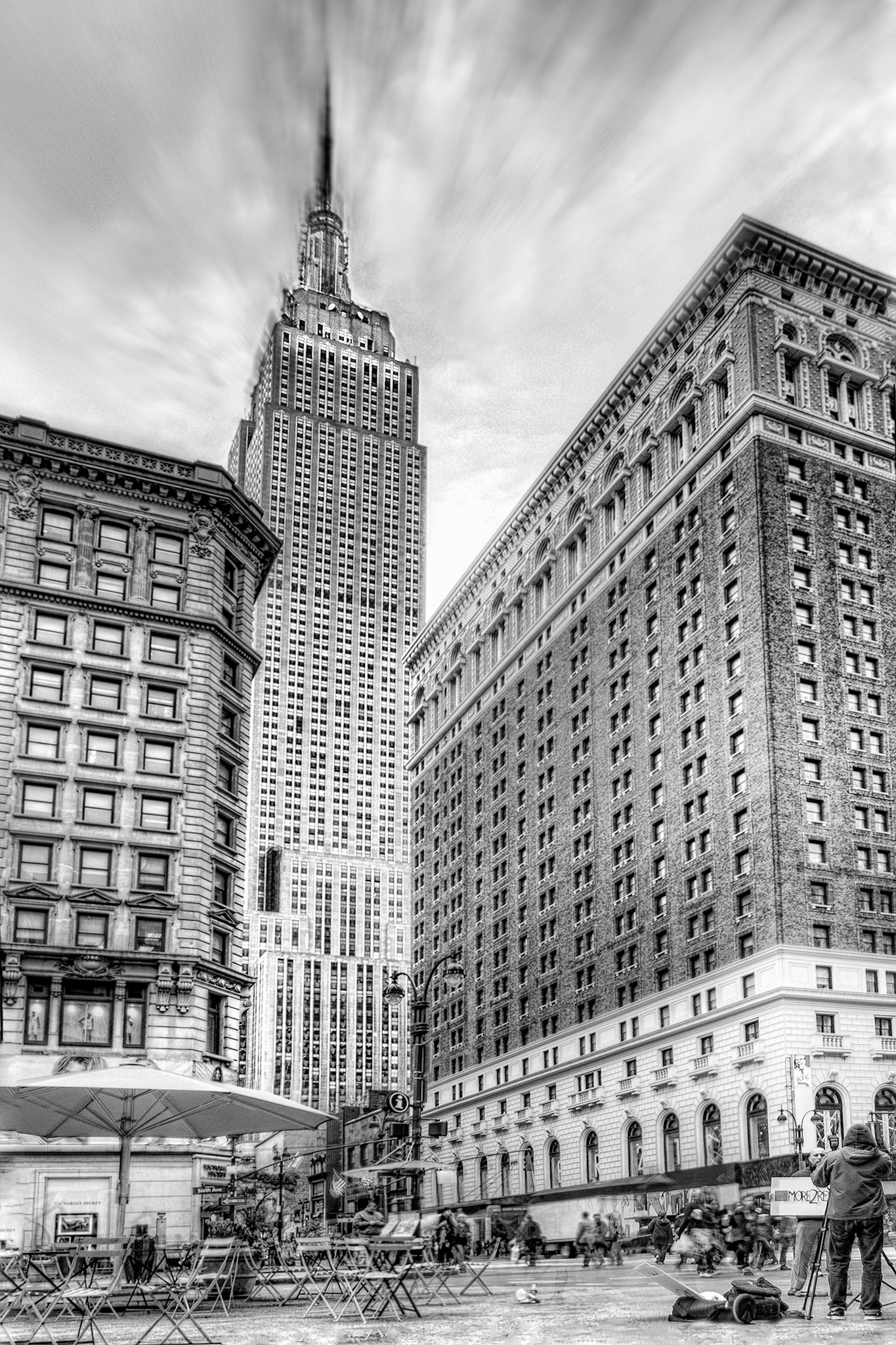 The Empire State Building from Herald Square